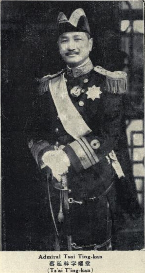 Cai Tinggan (Ts'ai T'ing-kan), Yaotang (1861 - 1935)